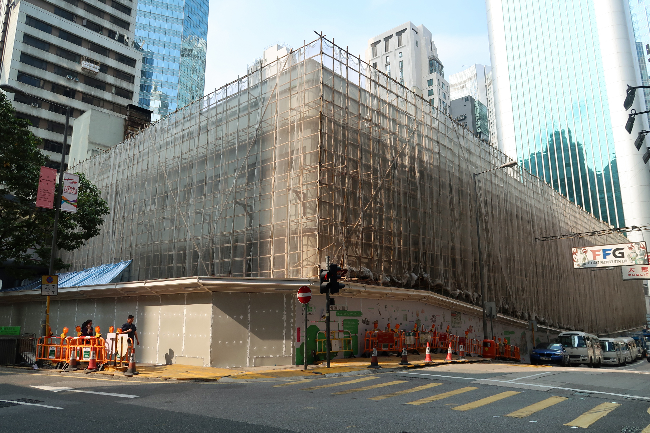 Central Market renovation site